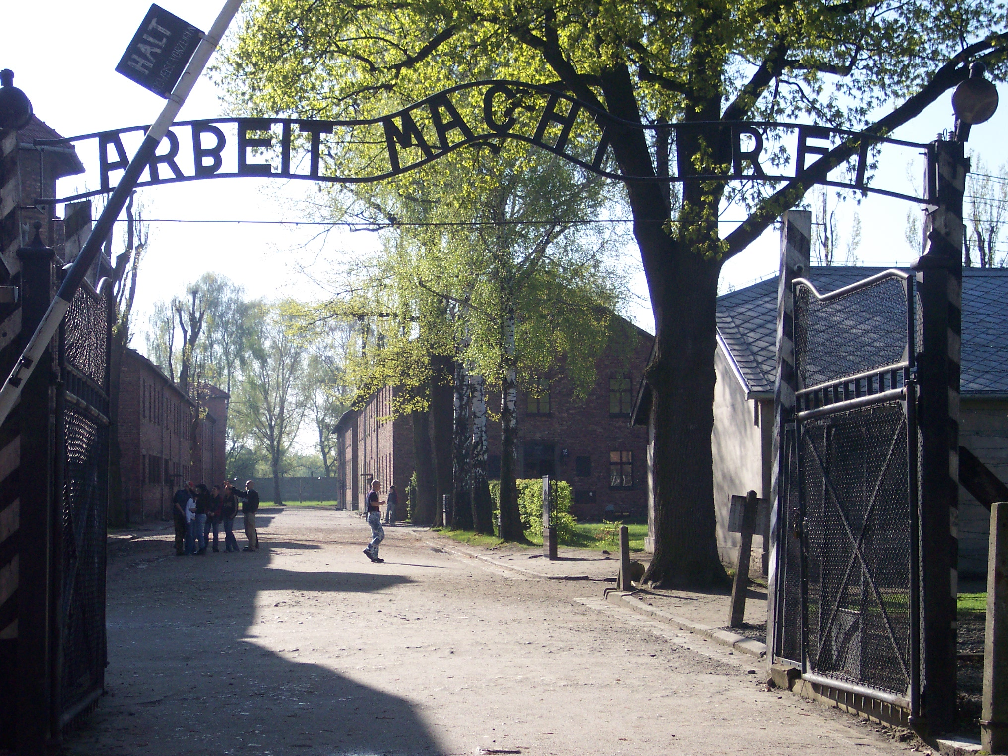 Entrance to the German death camp Auschwitz I in Poland.